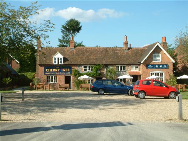 The Cherry Tree pub, Stoke Row, Oxfordshire